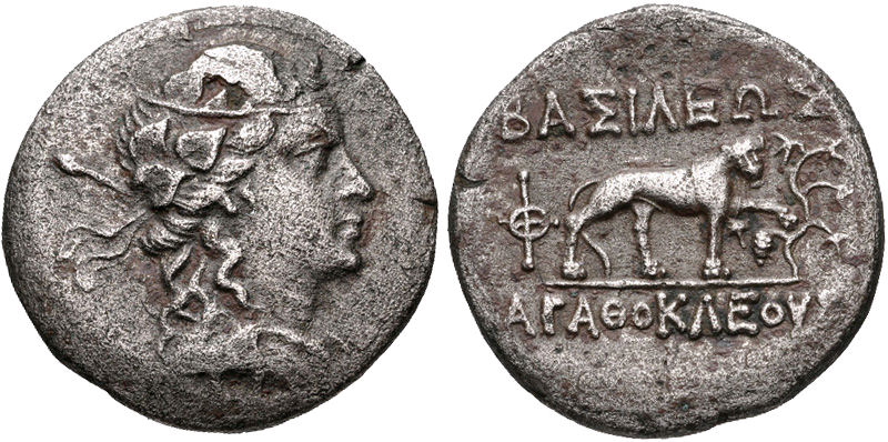 Agathokles. Circa 185-180 BC. CU-NI Double Unit (23mm, 8.16 g, 11h). Bust of Dionysos right, wearing ivy wreath, thyrsos over shoulder Rev Panther with bell around neck standing right, raising paw